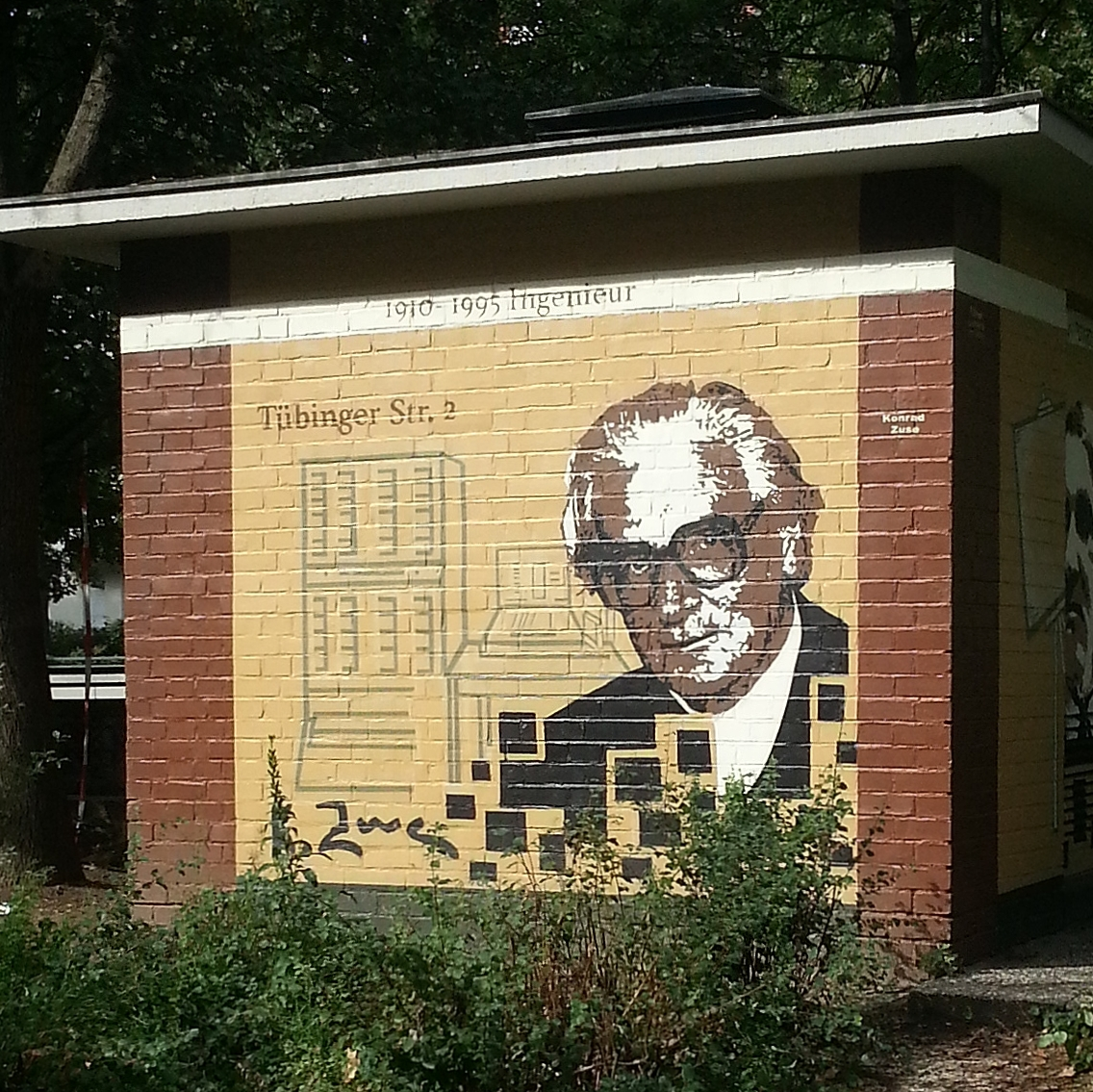 Image of Konrad Zuses (1910–1995) in the Bundesallee street in Berlin. Besides, his birth place is Tübinger street 2 is mentioned.